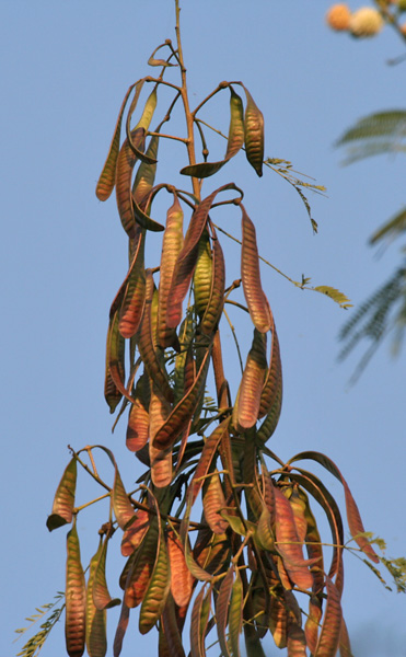 Subabool Leucaena leucocephala in Kolkata, West Bengal, India.